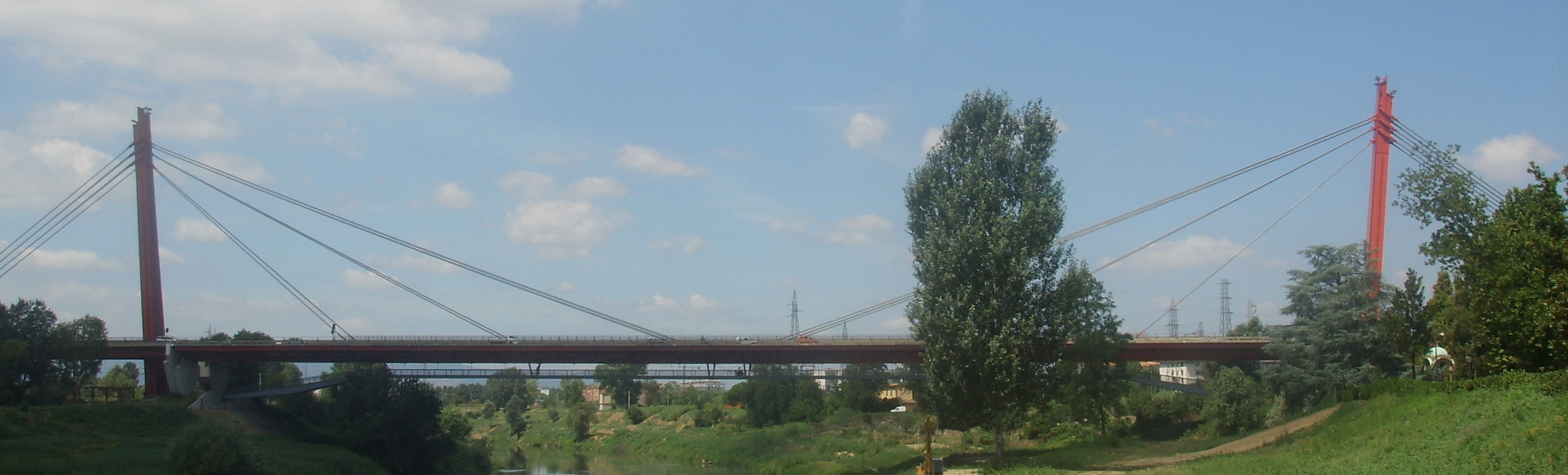 Ponte all'Indiano bridge in Florence, Italy